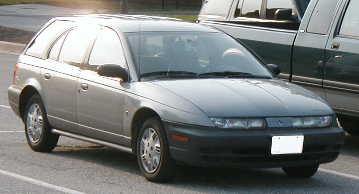 1996-1999 Saturn SW photographed in USA.